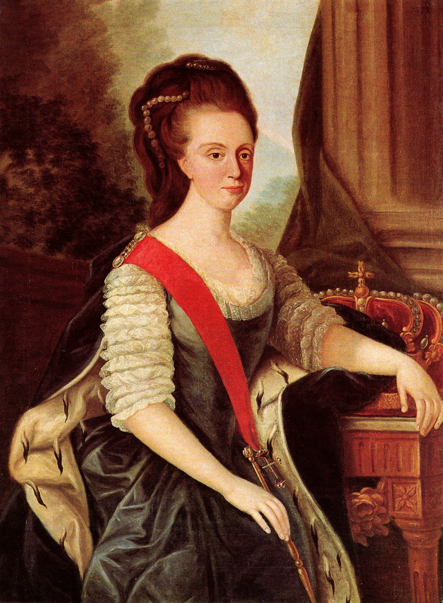 Portrait painting of Queen Maria I of Portugal, in the Lisbon Academy of Sciences.